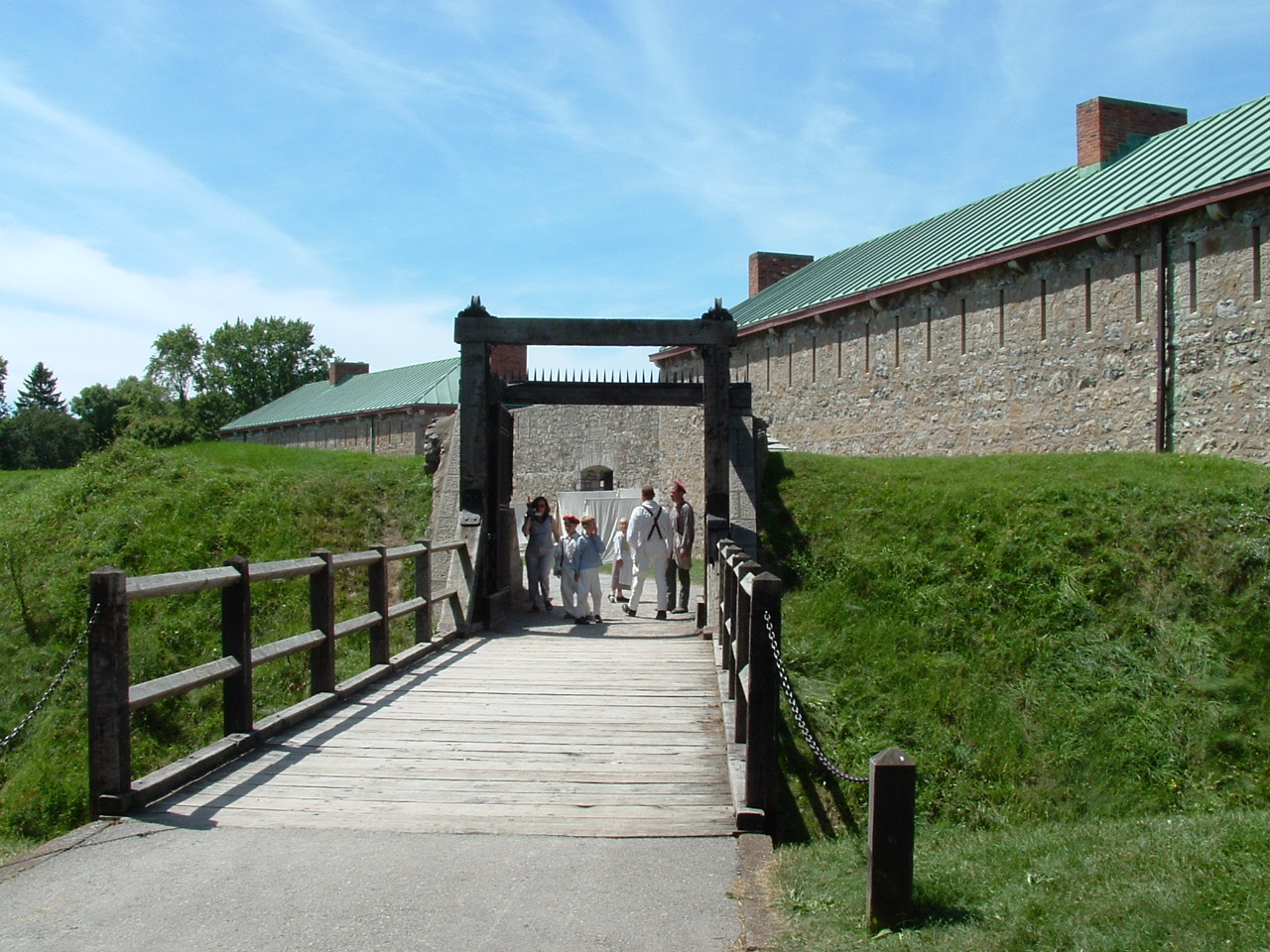 Side of entrance to Fort Erie, Ontario, Canada